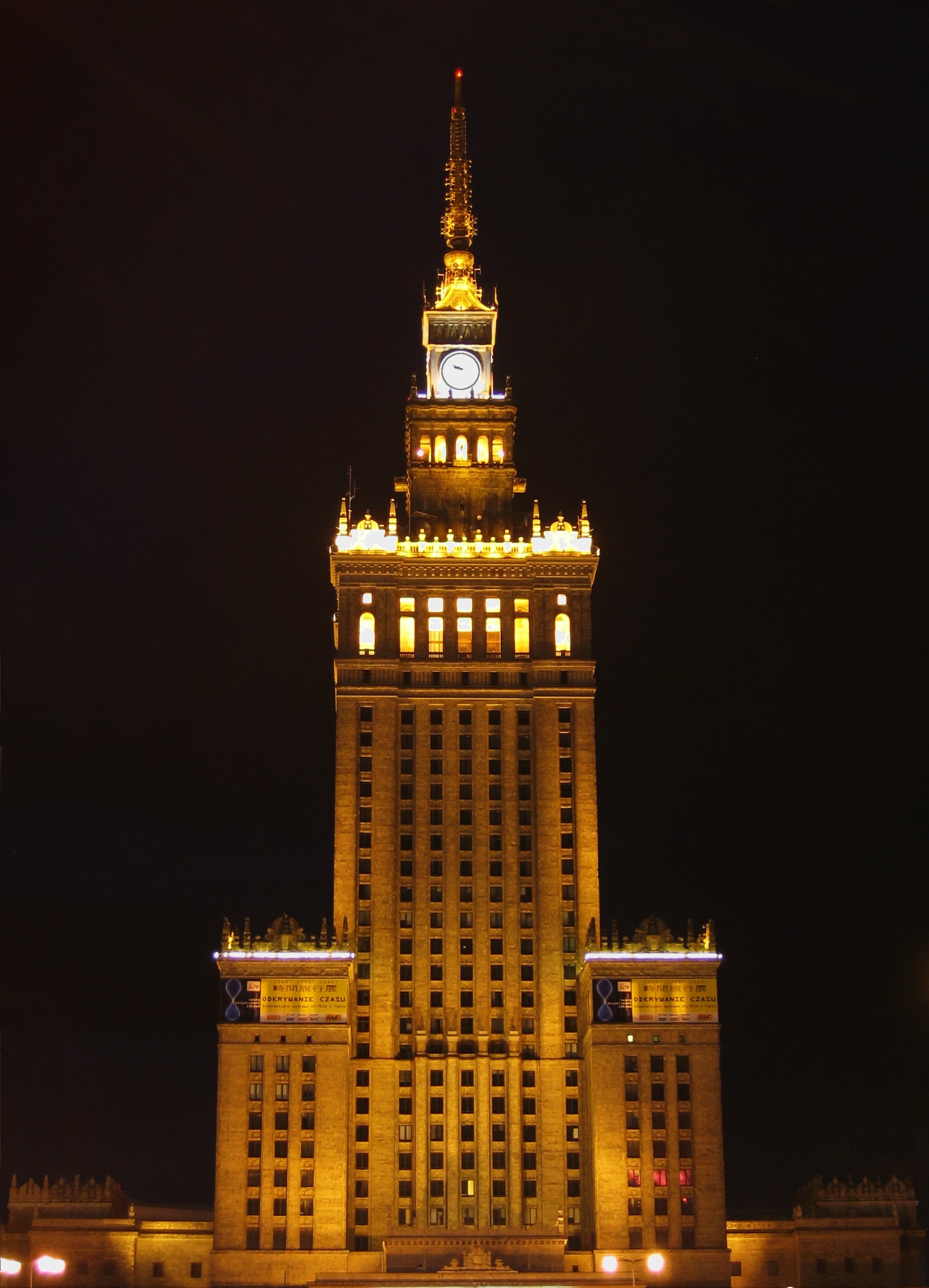 Palace of Culture in Warszaw